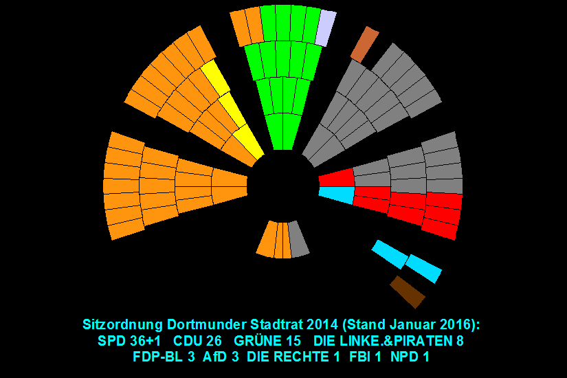 Seating arrangement in the City Council of Dortmund since january 2015